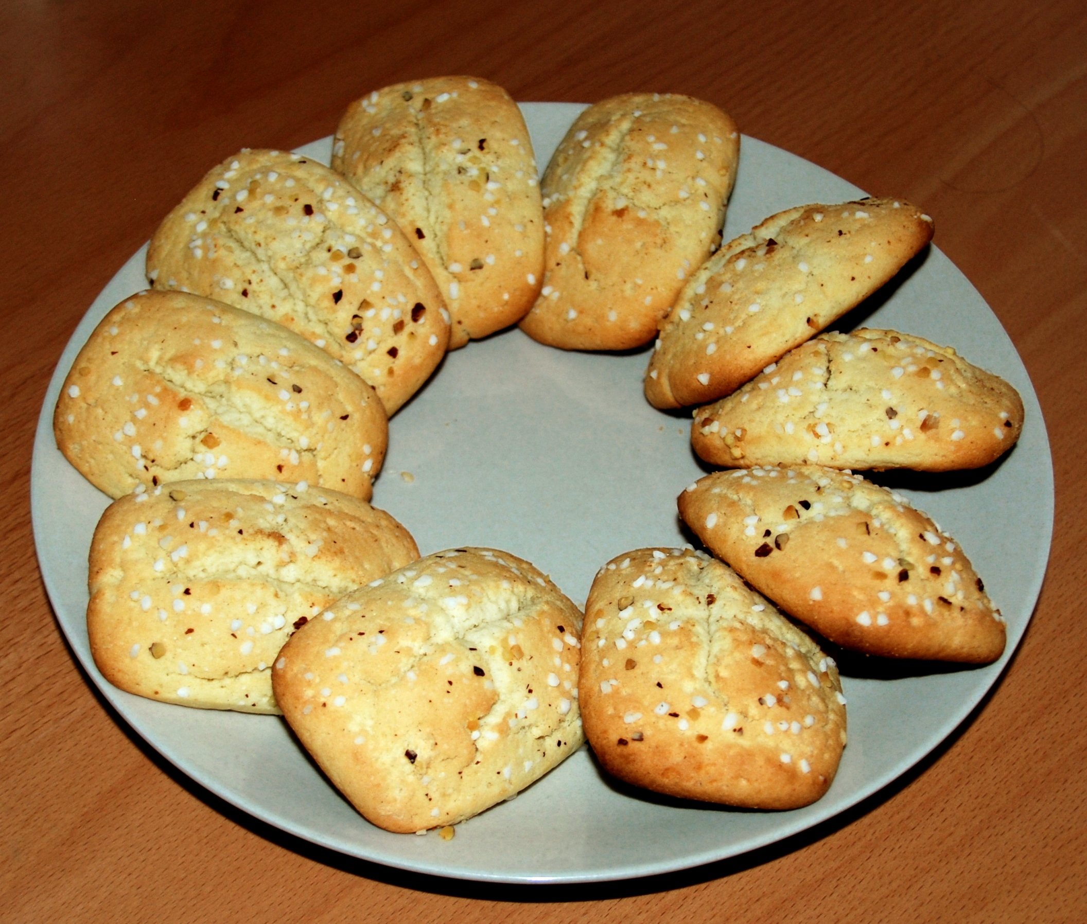 A swedish cookie called "mandelkubb"